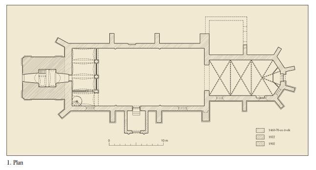 Planul bisericii reformate din Tașnad